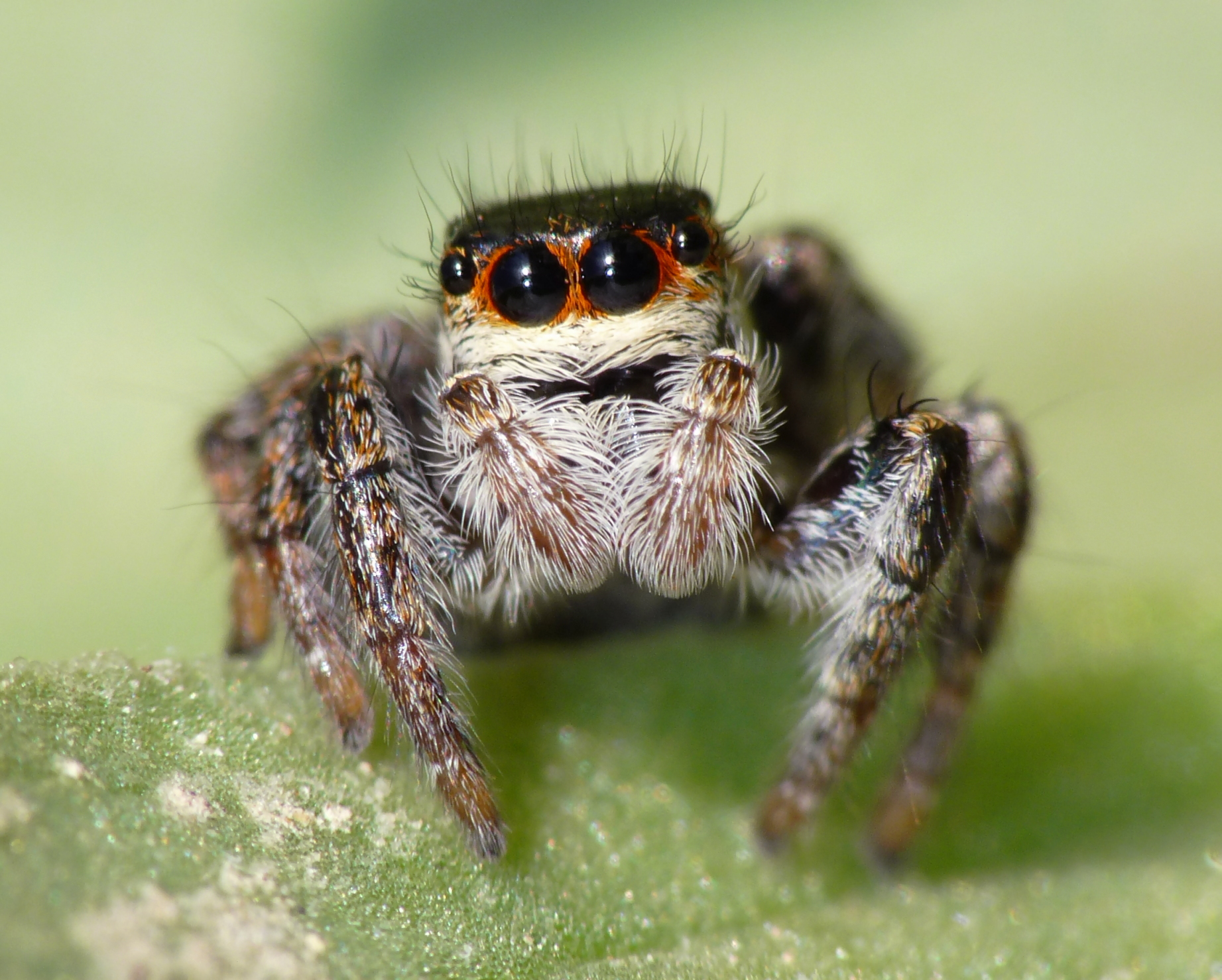 Carrhotus xanthogramma (Salticidae), female - near Livorno, Tuscany, Italy